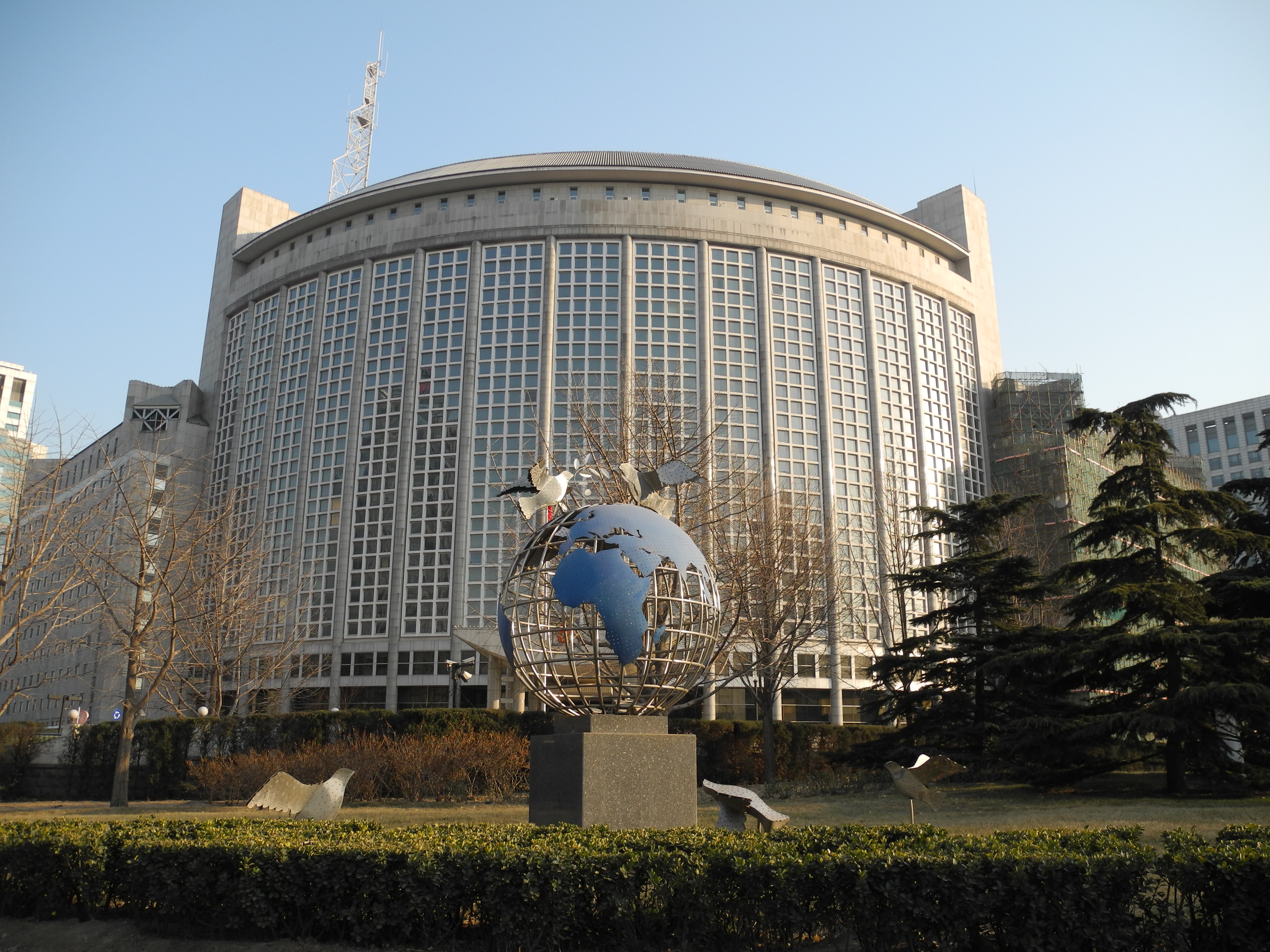 The Ministry of Foreign Affairs of the PR China, Beijing (2017)